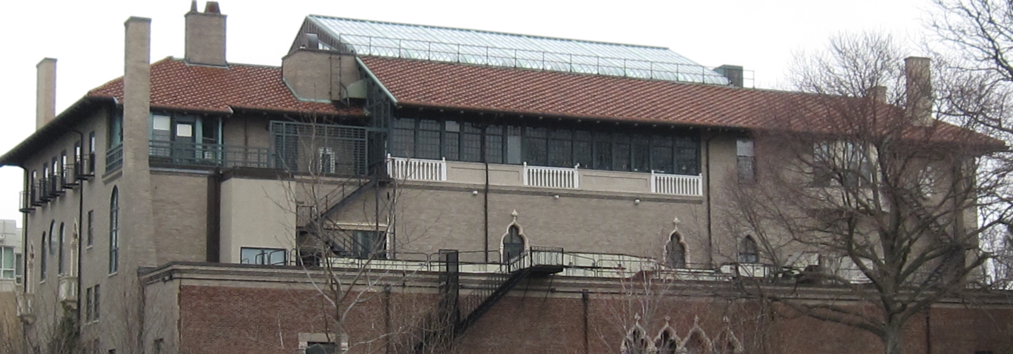 Gardner Museum, Boston, Massachusetts, USA